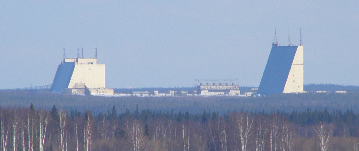 Cropped version of Pechora radar station, Komi Republic, Russia. Daryal radar. Transmitter building left, Receiver right.